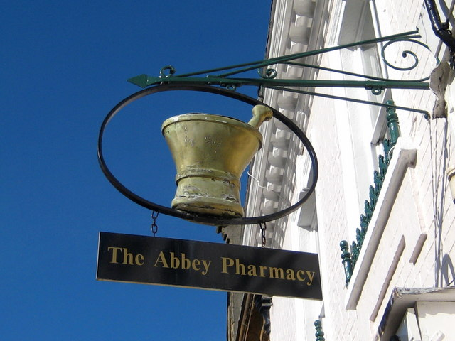 Pharmacy sign - Cheap Street This is the trade sign for The Abbey Pharmacy. The pestle and mortar were the essential items of equipment for the traditional pharmacist. Virtually anything could be ground up and put into all types of medication be they liquid, cream or tablet form.